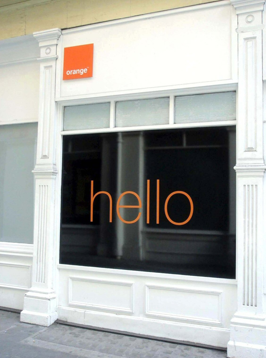 Orange Shop Devonshire Row, London EC2M